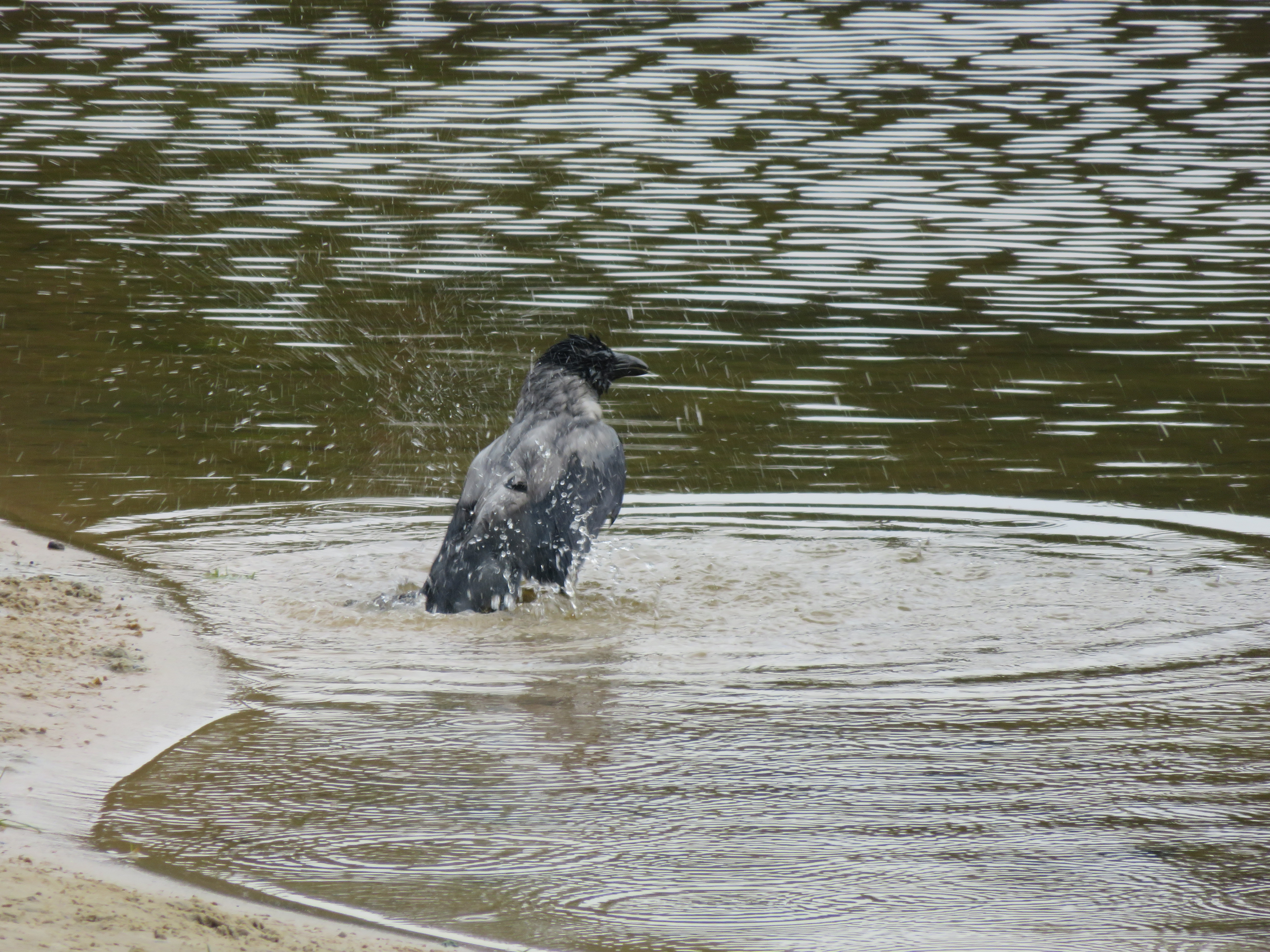 Hooded crow (Corvus cornix L.) is bathing in a pond in Partyz Glory Park, Kyiv, Ukraine